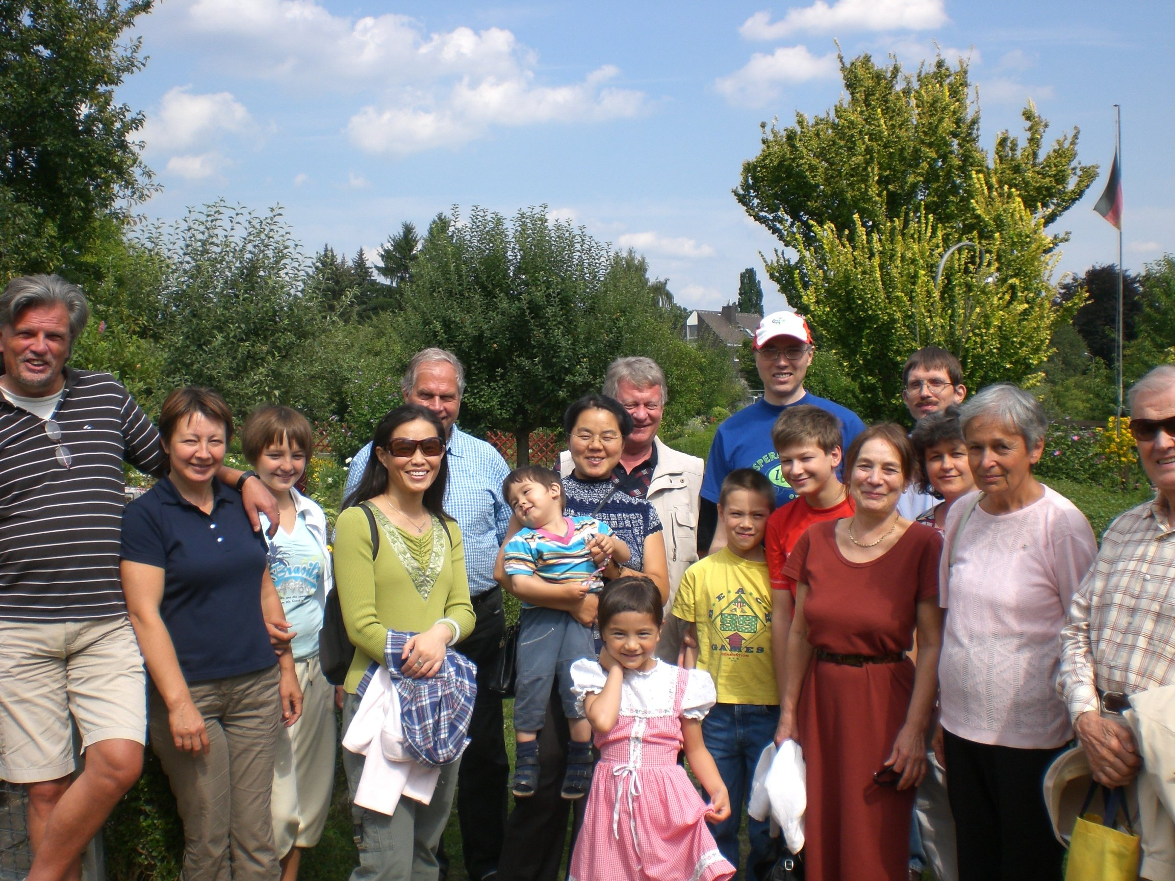 Esperanto-Group of Wiesbaden, Germany